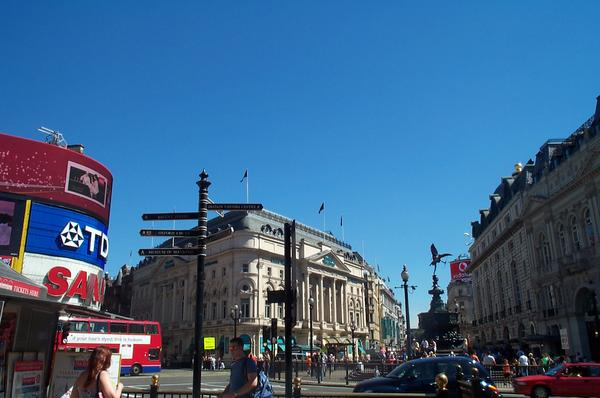 Piccadilly Circus 2004-08-07. Copyright © Kaihsu Tai.